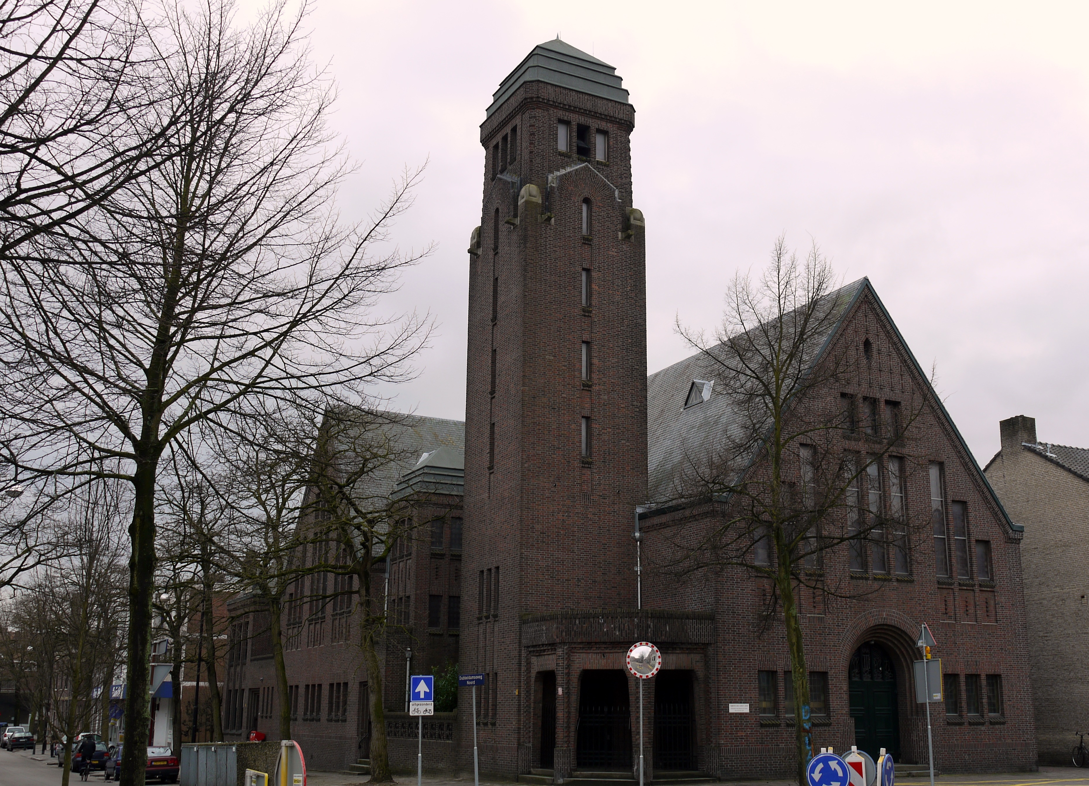 Christelijke Gereformeerde Kerk, a church at Singel 192, Dordrecht. Built 1921; designed by B. van Bilderbeek and H.A. Reus.